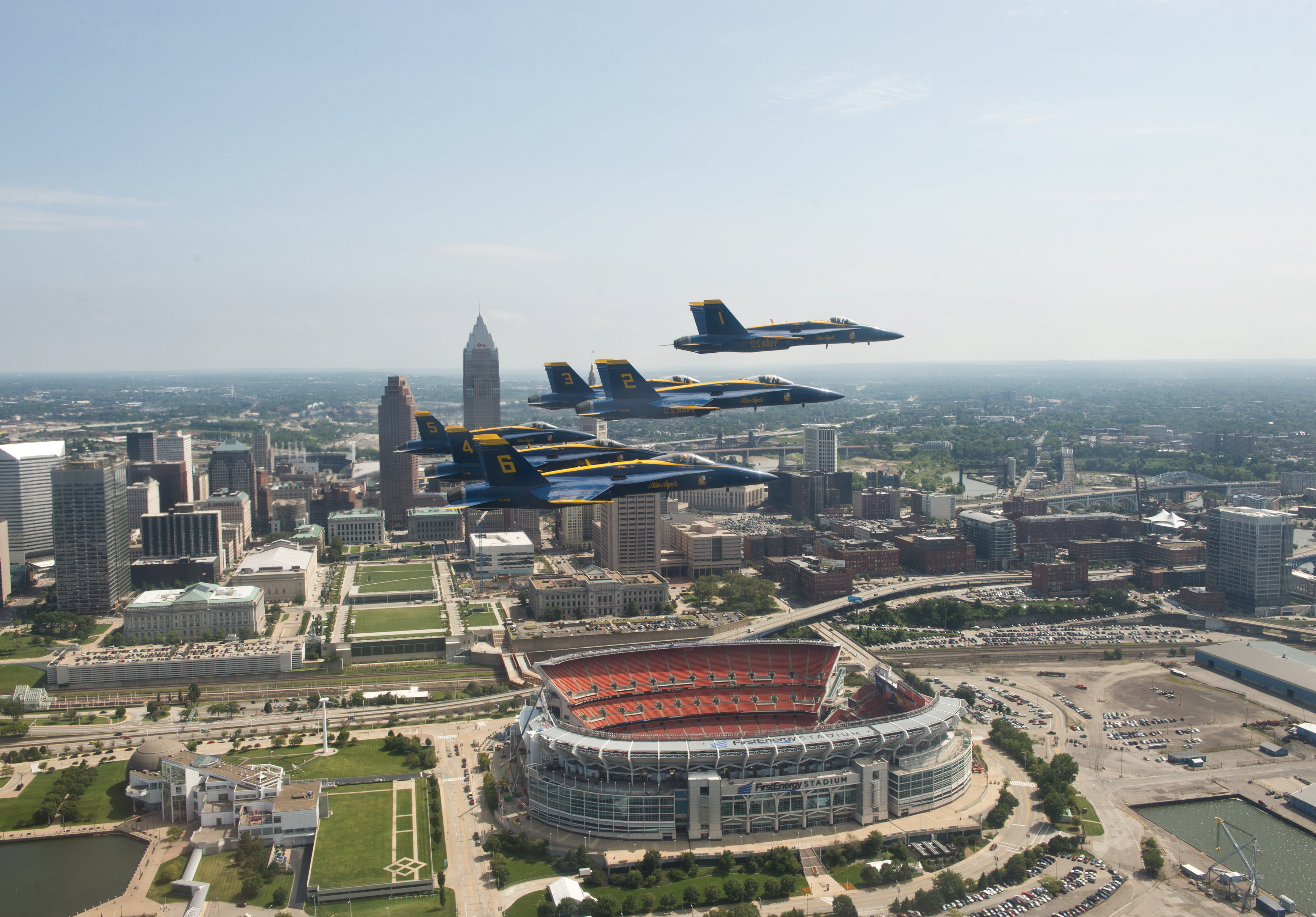 Pilots assigned the U.S. Navy Flight Demonstration Squadron, the Blue Angels, fly their F/A-18s in the Delta formation over Lake Erie off the coast of Cleveland for a scheduled team photo shoot. The Blue Angels are scheduled to fly in 68 performances at 35 locations this year. (U.S. Navy photo by Mass Communication Specialist 1st Michael Lindsey/Released)